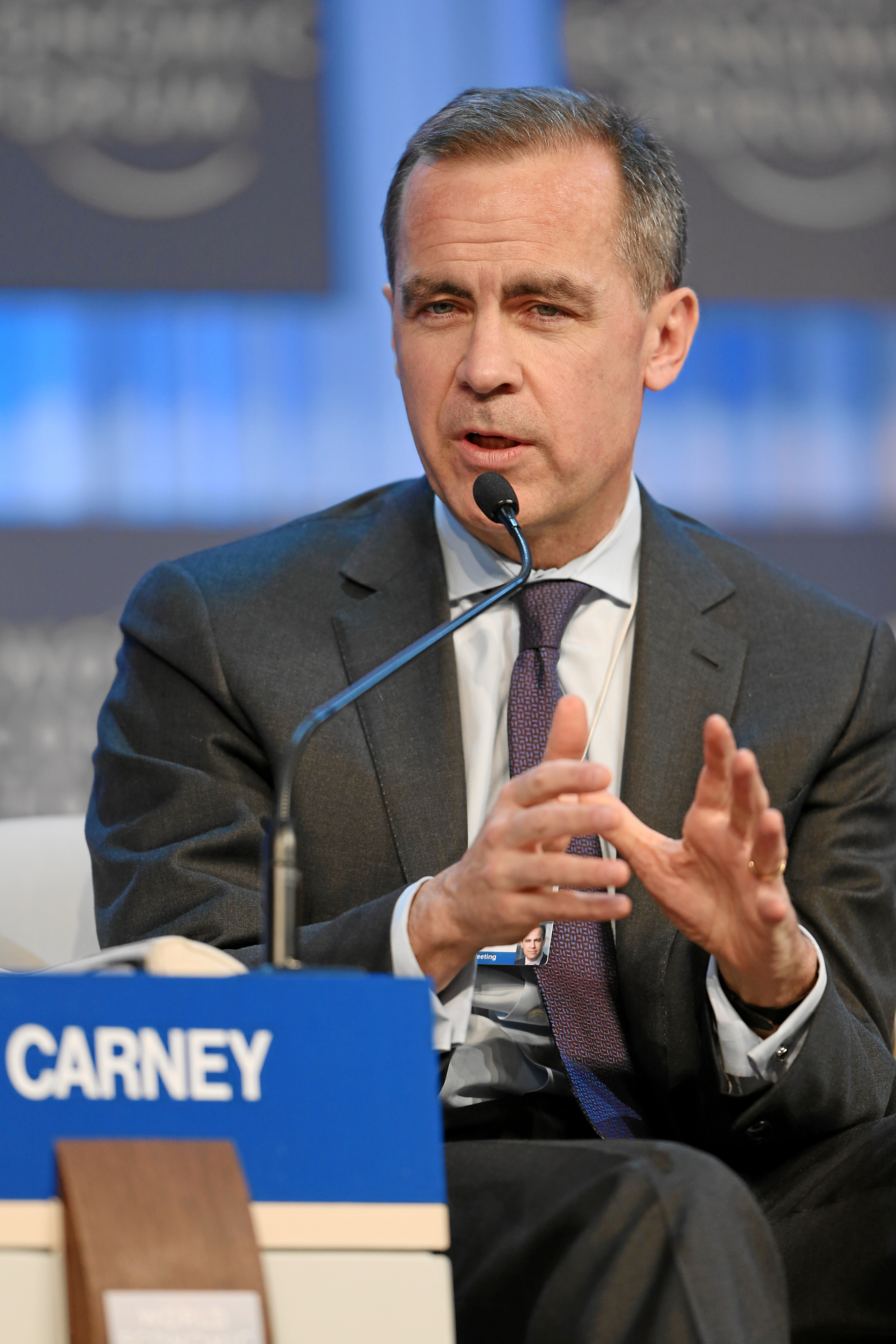 DAVOS/SWITZERLAND, 26JAN13 - Mark J. Carney, Governor of the Bank of Canada is seen during the Session 'The Global Economic Outlook' at the Annual Meeting 2013 of the World Economic Forum in Davos, Switzerland, January 26, 2013.. . Copyright by World Economic Forum. . Moritz Hager